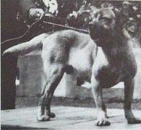 The Terceira mastiff dog(Cão fila da terceira). Dog Show in Lisboa.